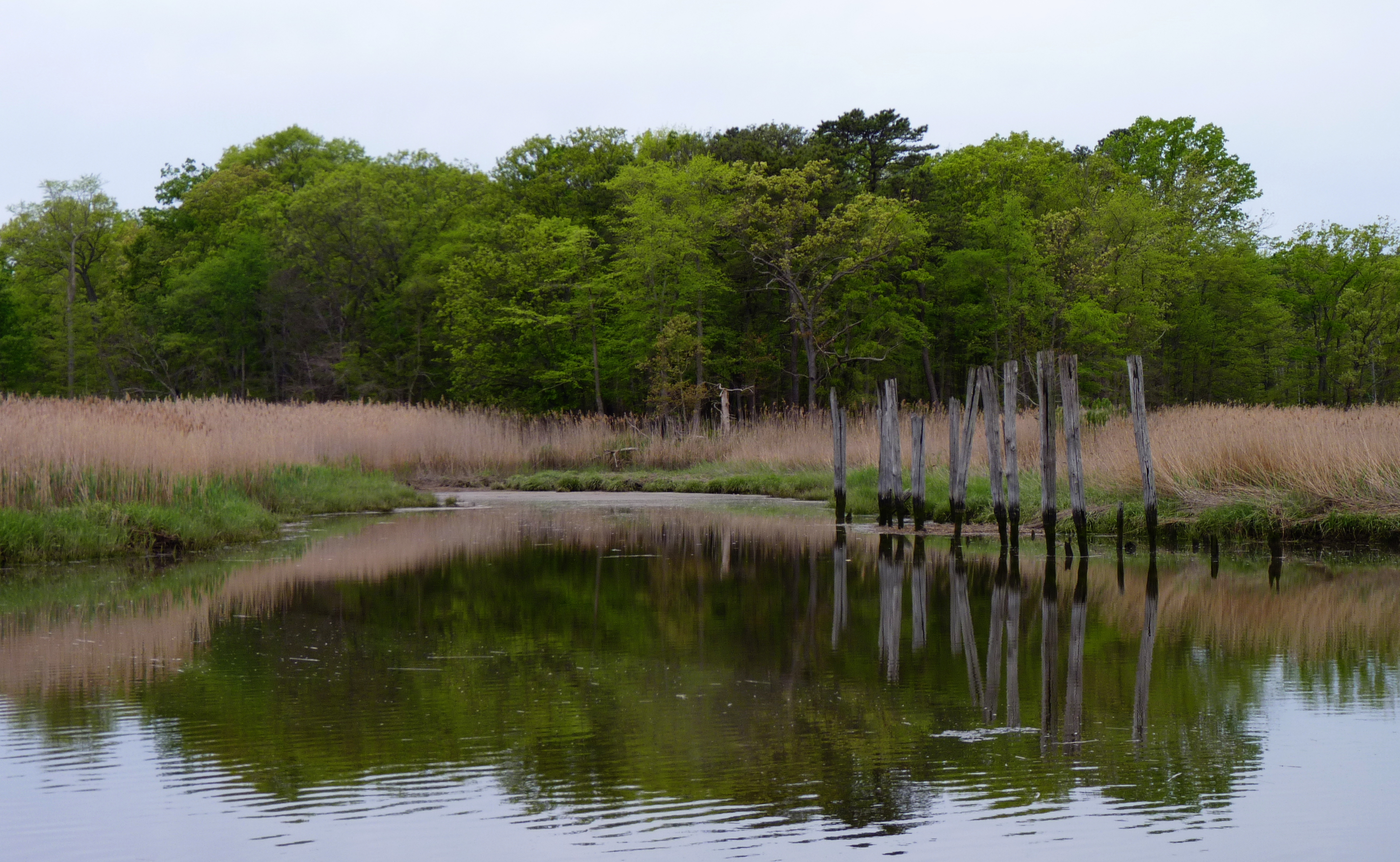 Cheesequake Creek within Cheesequake State Park